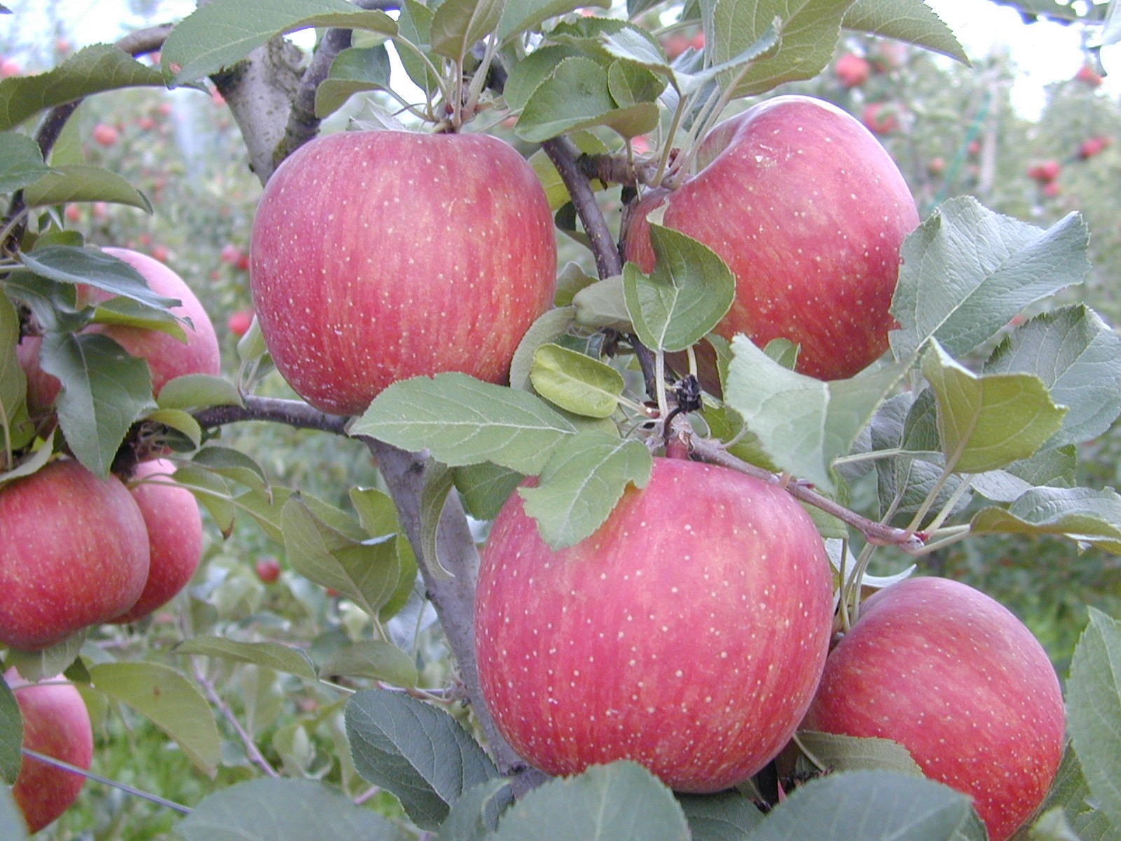 KIKU (r) Brak Apple